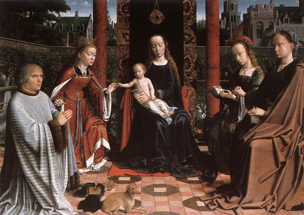 The Mystic Marriage of St. Catherine